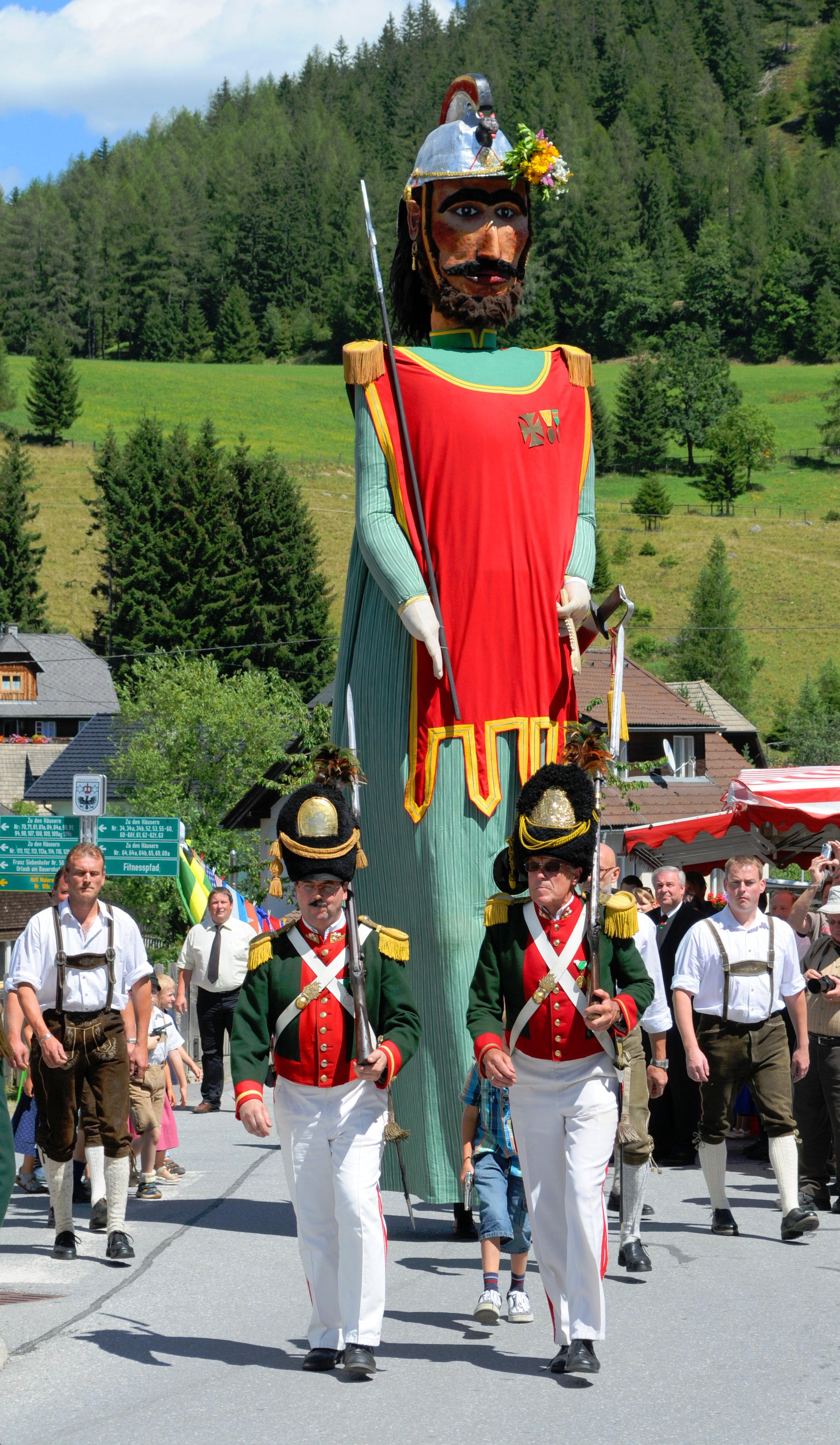 Samsonfestival Krakaudorf, Styria, Austria